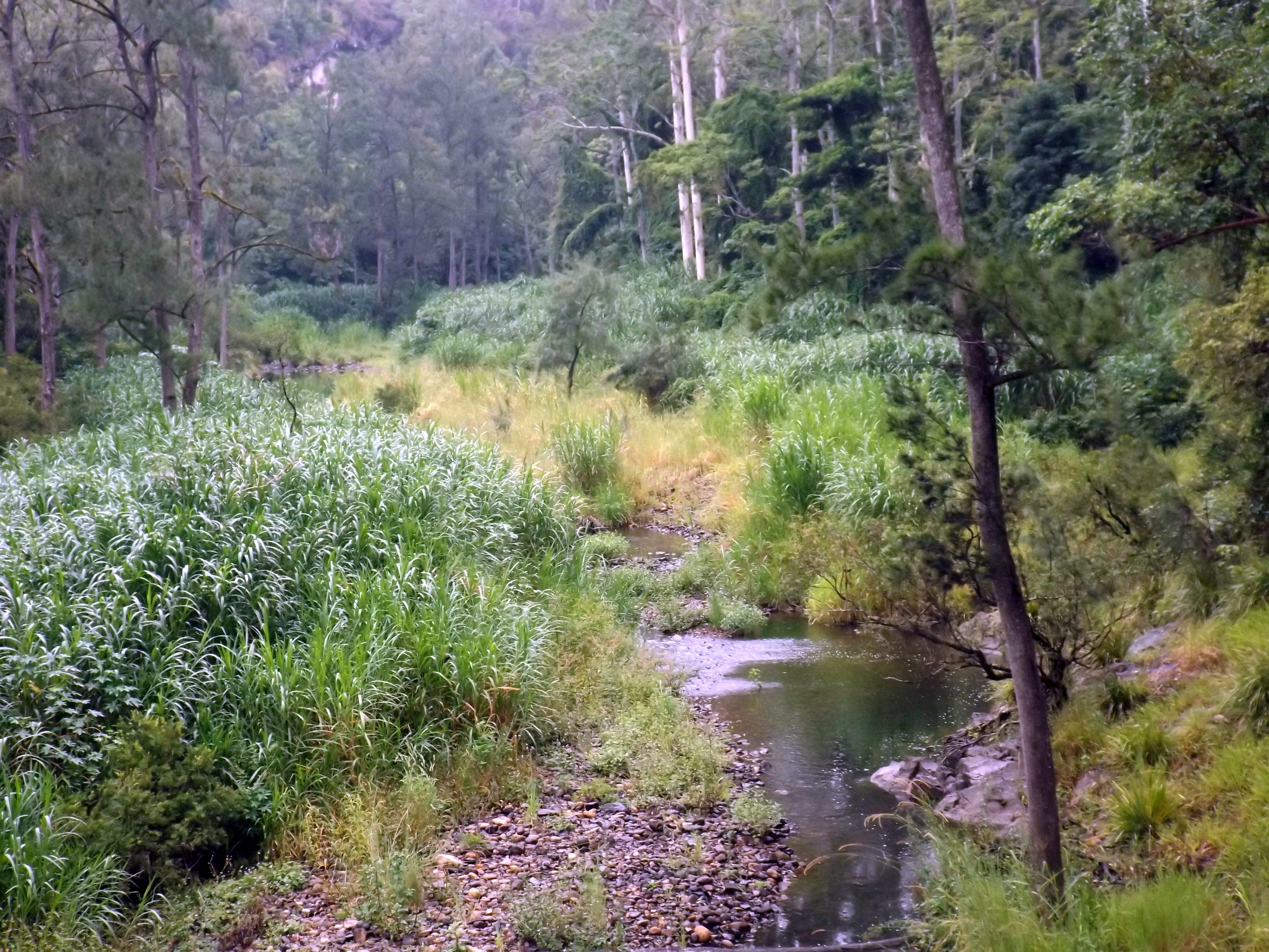 Photo of the Nerang River at Numinbah Valley, Gold Coast City, Queensland, Australia. View is looking south (upstream) from Pocket Road crossing.